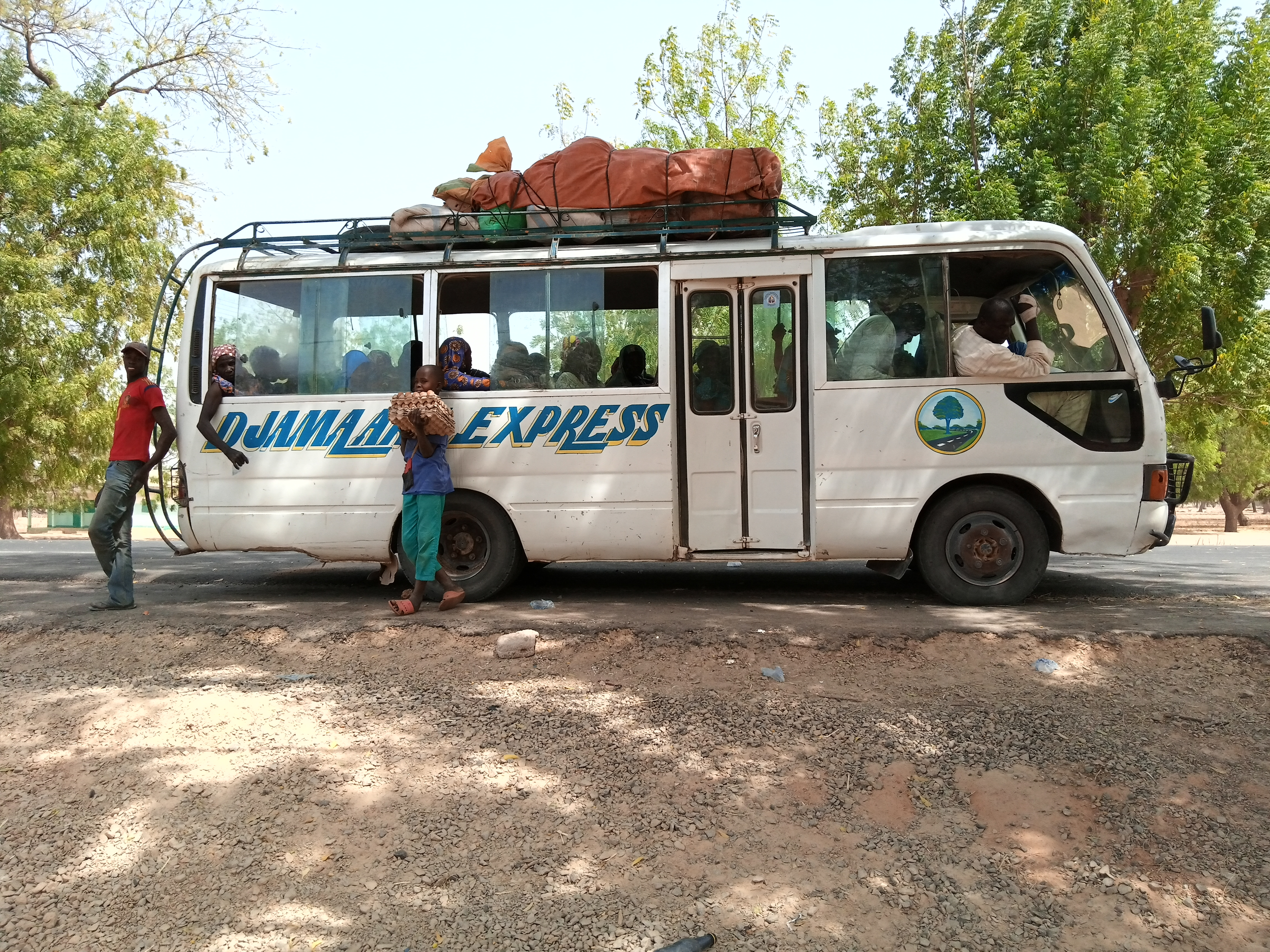 This is an image with the theme "Africa on the Move or Transport" from: Cameroon